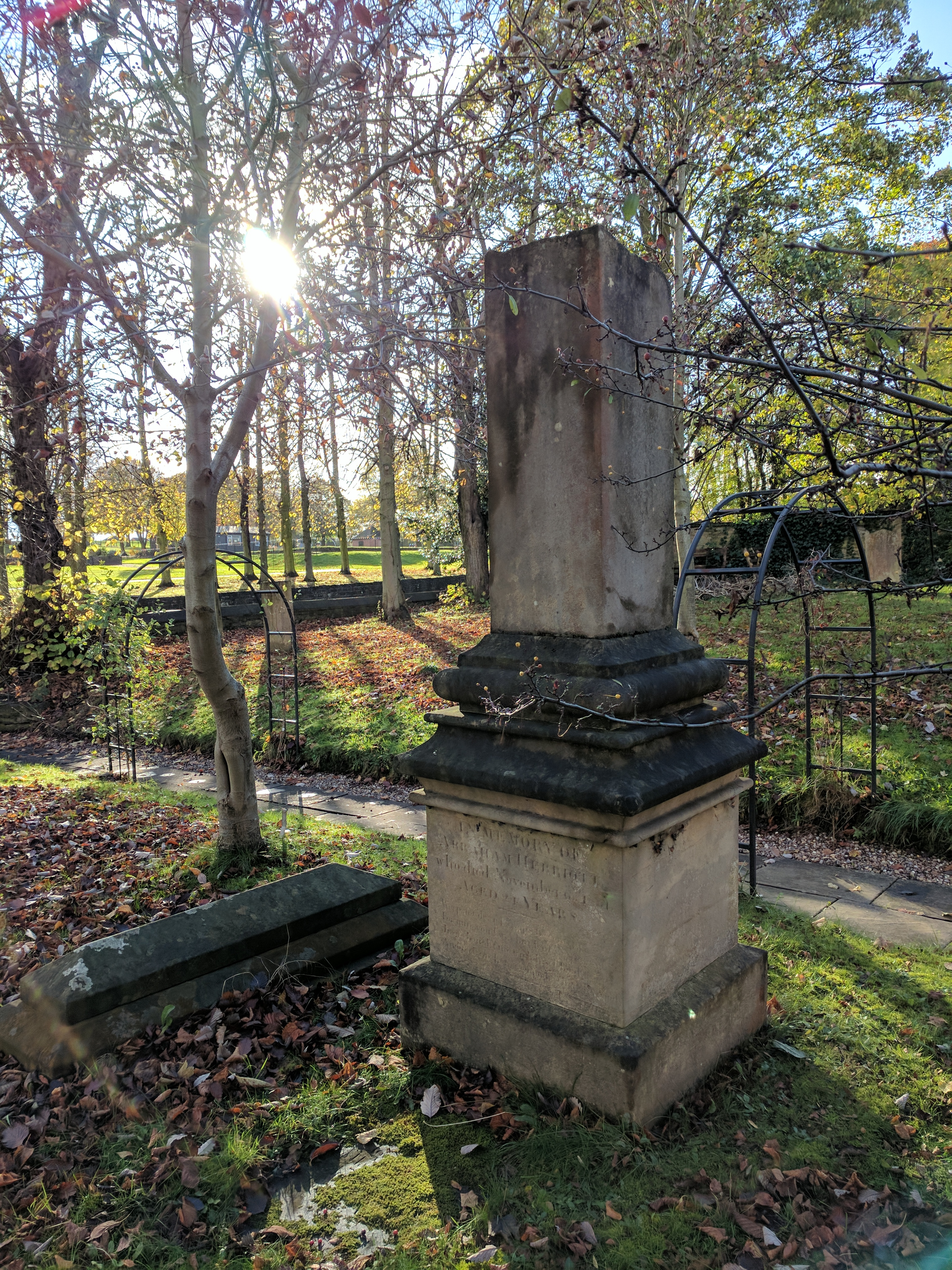 Headstone 28 Metres South Of Chancel At Church Of St Edmund Wikidata has entry Q26553437 with data related to this item.